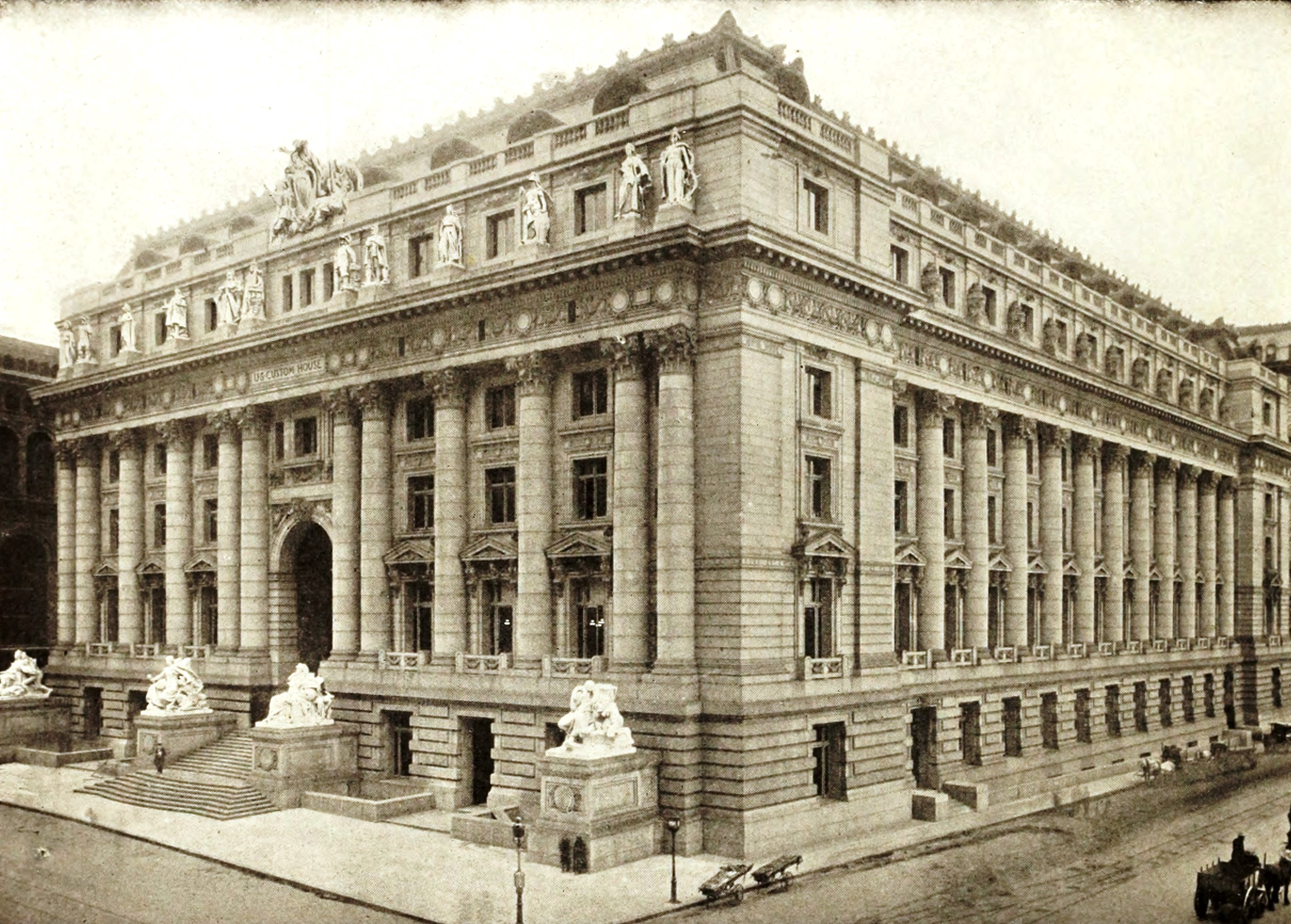 Title: New York of to-day. Year: 1912 (1910s) Authors: Durst, Seymour B., 1913-, former owner. NNC Subjects: Publisher: Portland, Me. : L. H. Nelson co. Text Appearing Before Image: ' Text Appearing After Image: U. S. CUSTOM HOUSE, Bowling Green, foot of Broadway. Occupies an entire block, and was completed in 1907 at a cost of $7,200,000. This beautifulstructure is the finest customs building in the world. Doric colonnades give a superb air of stateliness to the walls, and the cornice is embellished with statuesemblematic of the great commercial nations. Larger groups representing the continents, America, Europe. Africa, and Asia, by Daniel C. French, flank eitherside of the main entrance. A cartouche emblematic of the American Nation, by Carl Bitter, is the crowning feature of the facade. Cass Gilbert, Architect.